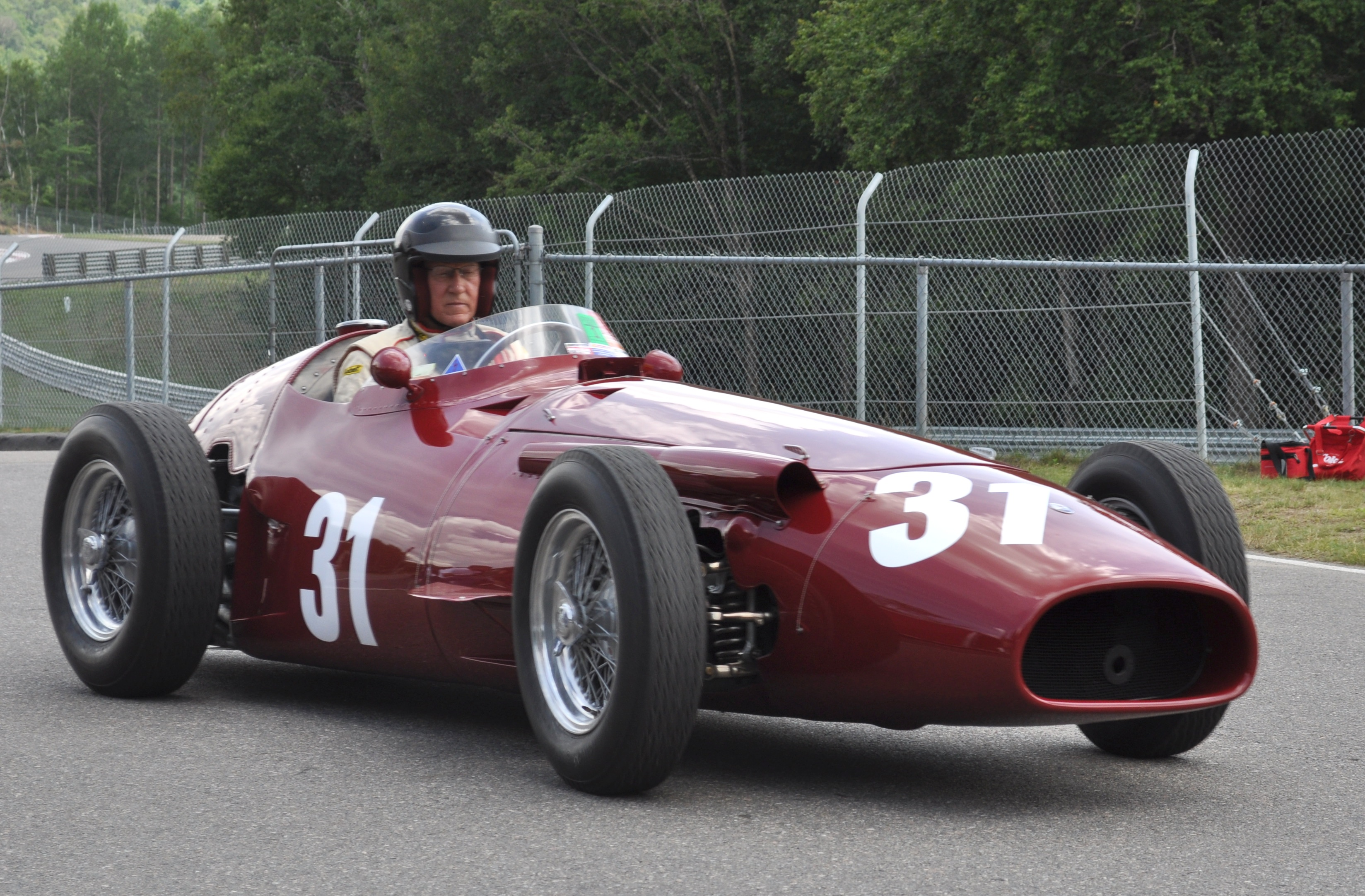 Peter Giddings heads for the marshalling area in his Maserati 250F Formula One car, in the paddock at Circuit Mont-Tremblant during the 2010 Legends of Motorsport meeting.